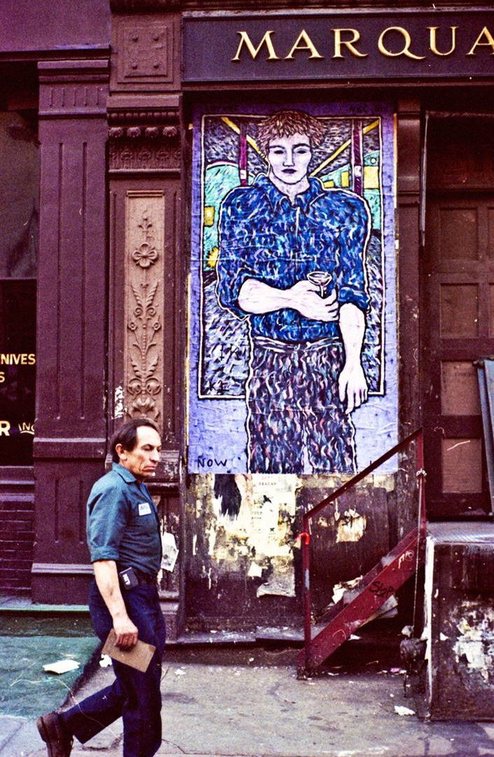 A photo of Kevin Larmee's street art on a wall in the SoHo neighborhood of Manhattan, New York, in 1985.